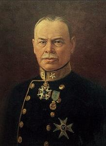 Painting of Axel Carleson as regimental commander of Gotland Infantry Regiment (I 27).